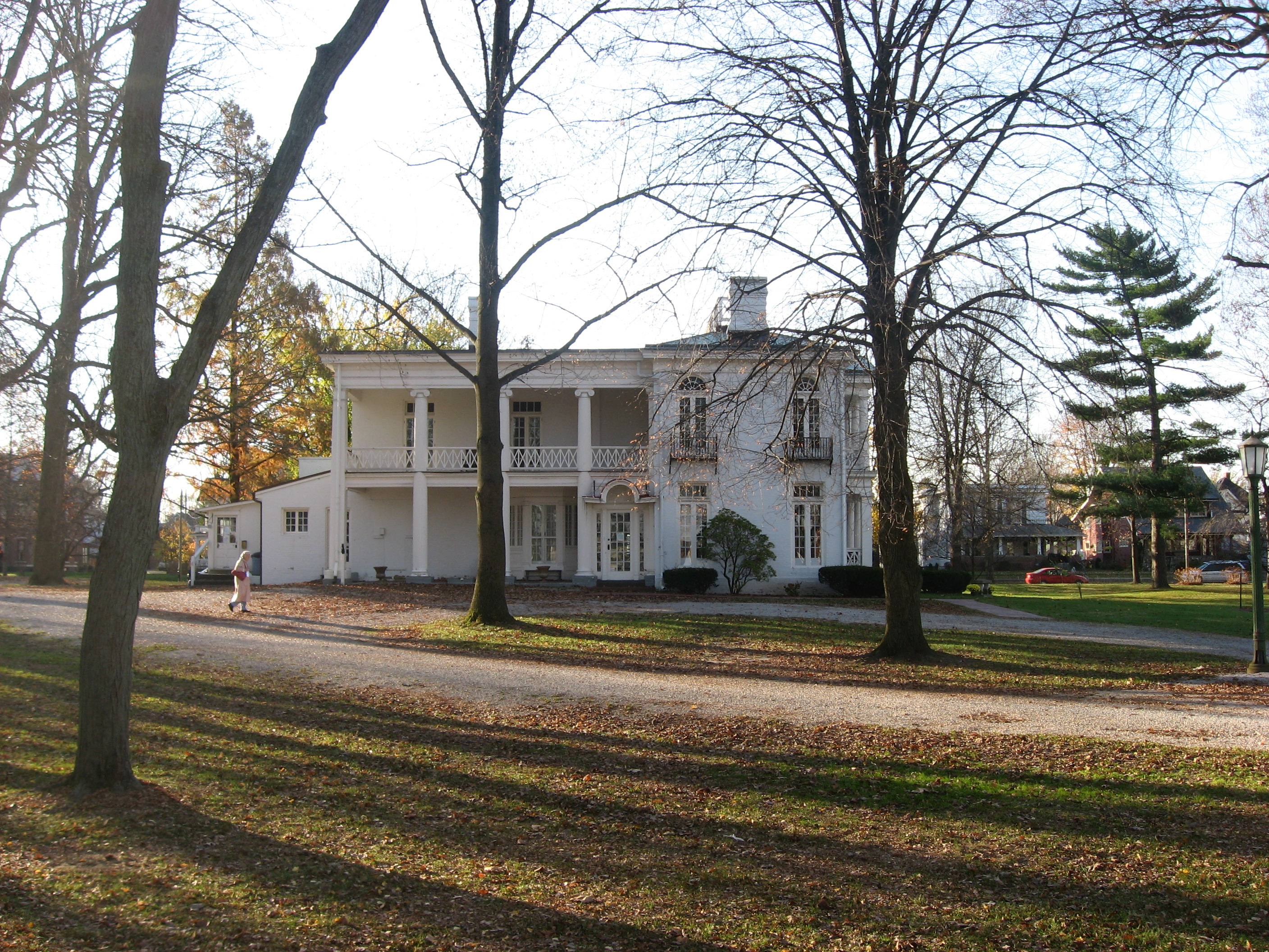 Northern side of the Henry S. Lane House, located at 212 S. Water Street in Crawfordsville, Indiana, United States. Built in 1830, it is listed on the National Register of Historic Places, and it is part of the Register-listed Elston Grove Historic District.